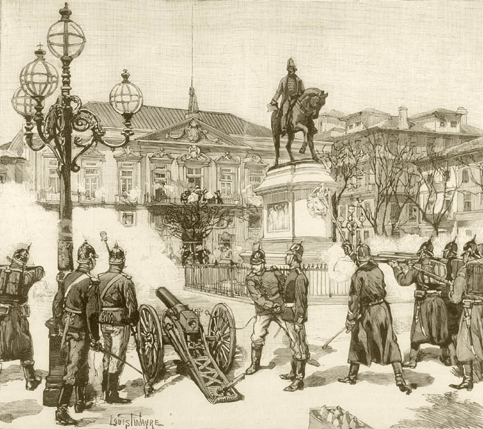 January 31. The Revolt of Porto: the municipal guards attacking the rebels entrenched in the house of Camara